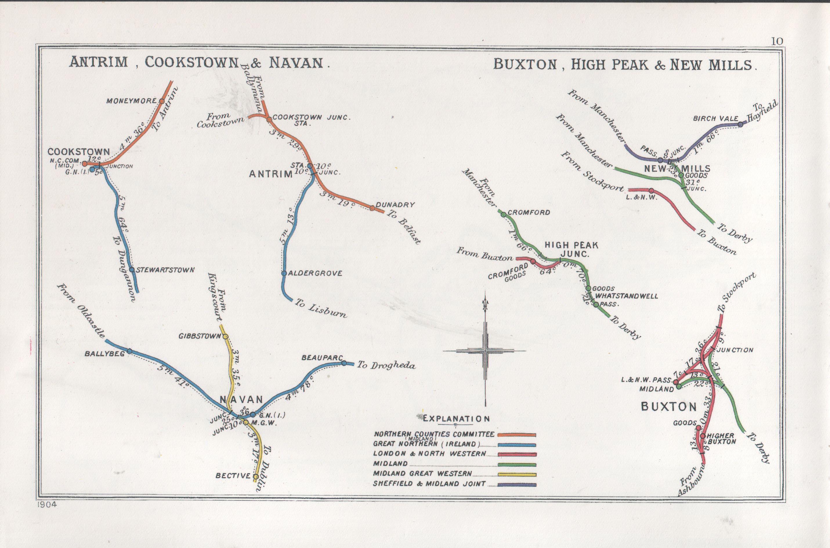 Pre Grouping railway junction around Antrim, Cookstown & Navan Buxton, High Peak & New Mills